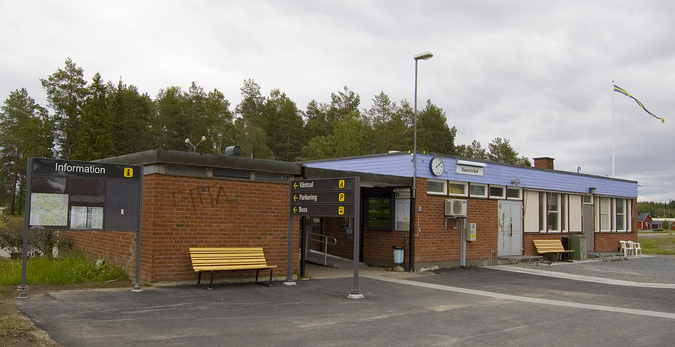 Bastuträsk railway station